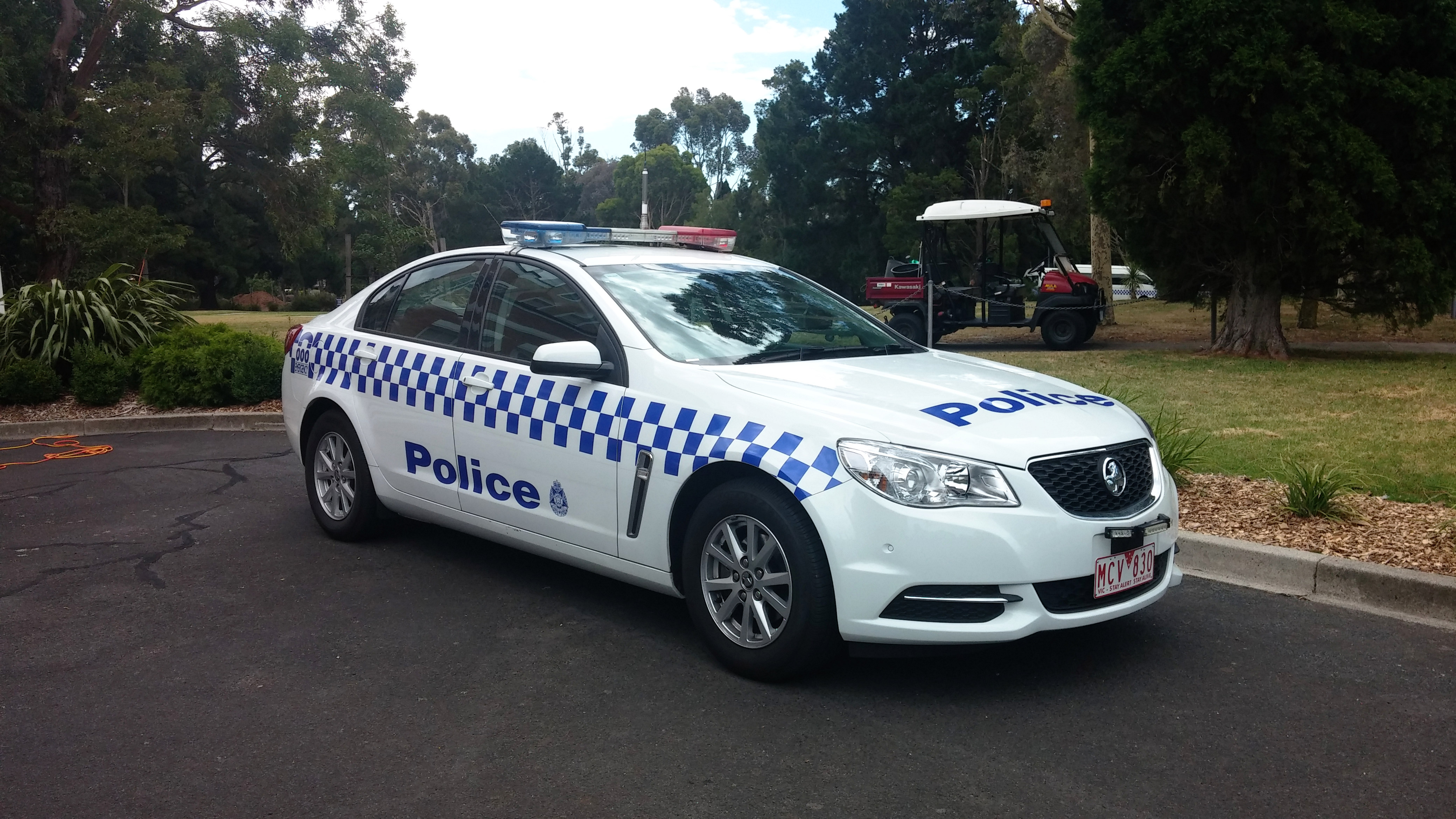 Victoria Police 2014 Holden VF Commodore Evoke